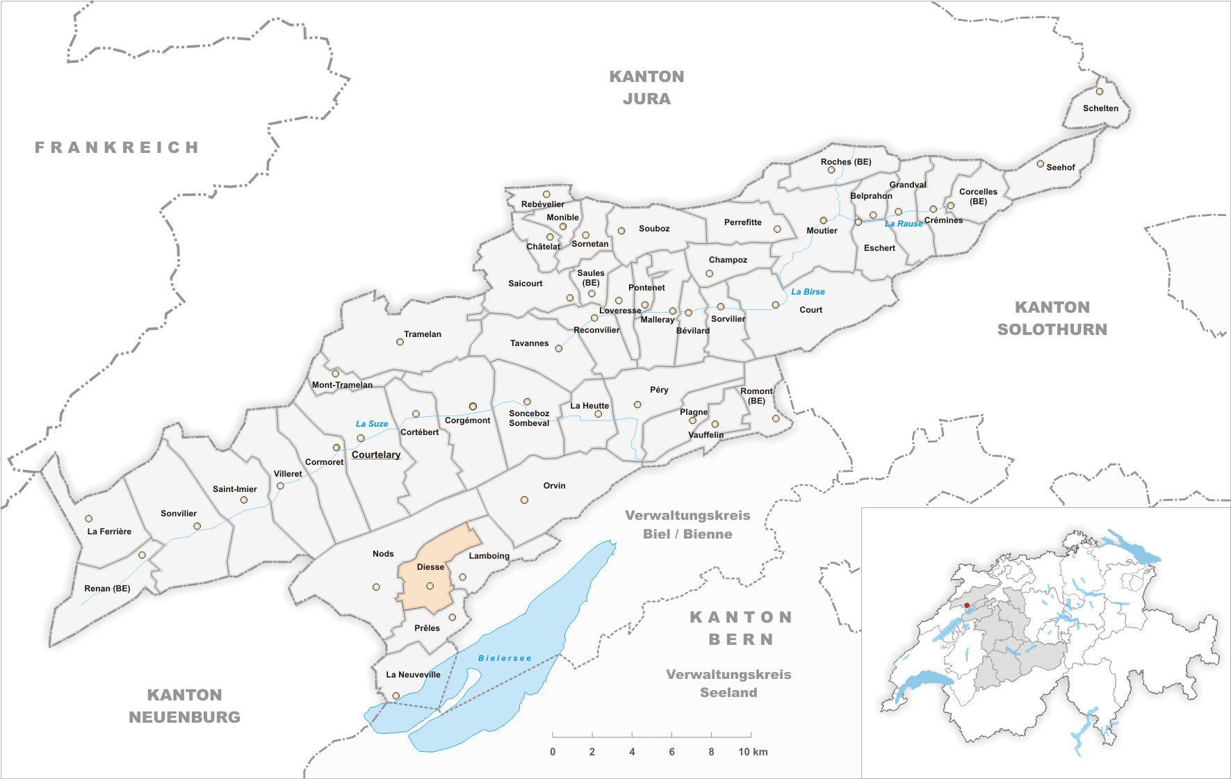 Municipality Diesse